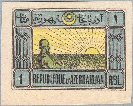 A 1919 Azerbaijan Democratic Republic Postage Stamp